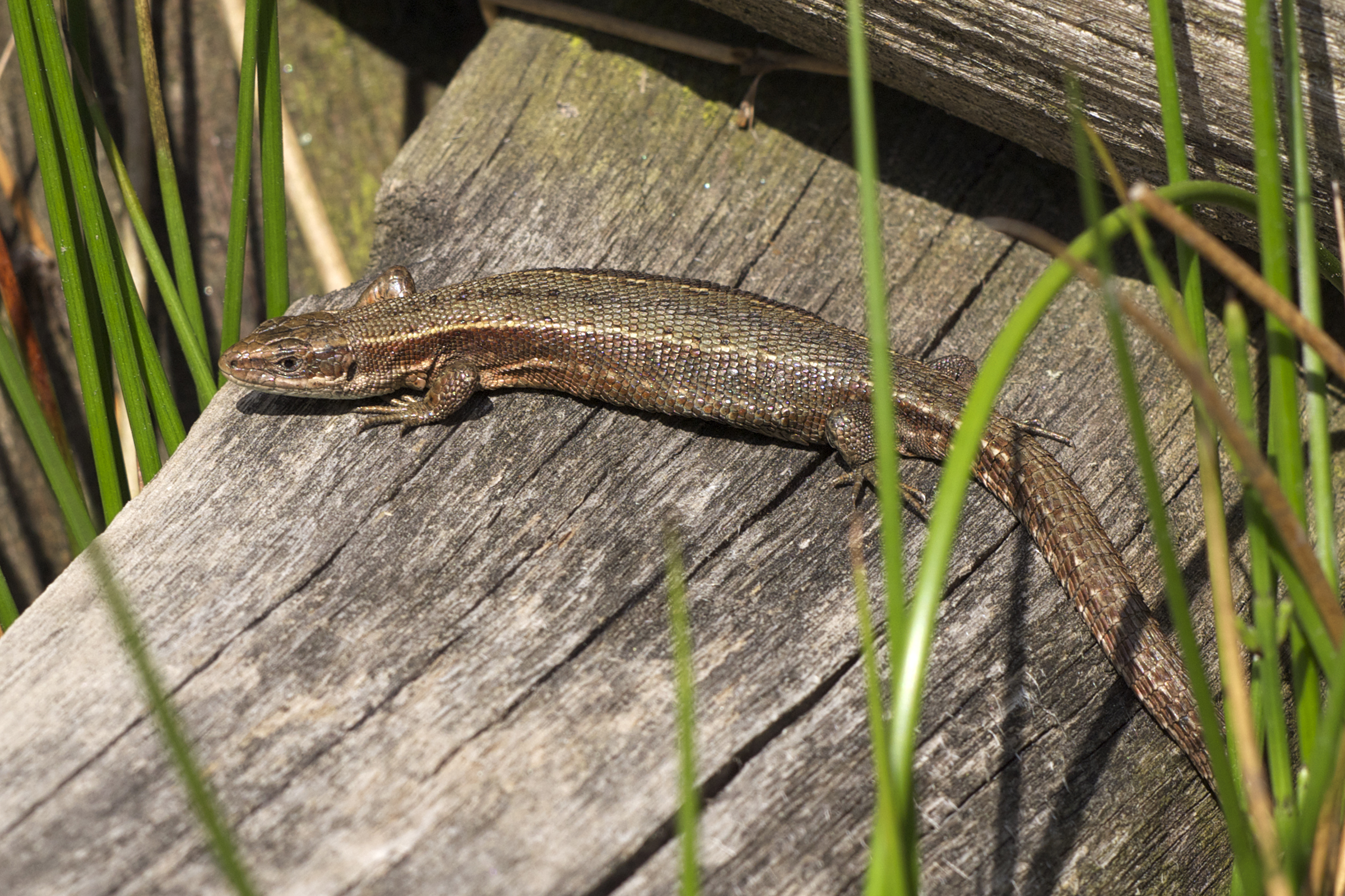 Common lizard (Zootoca vivipara), Chemnitz. Germany